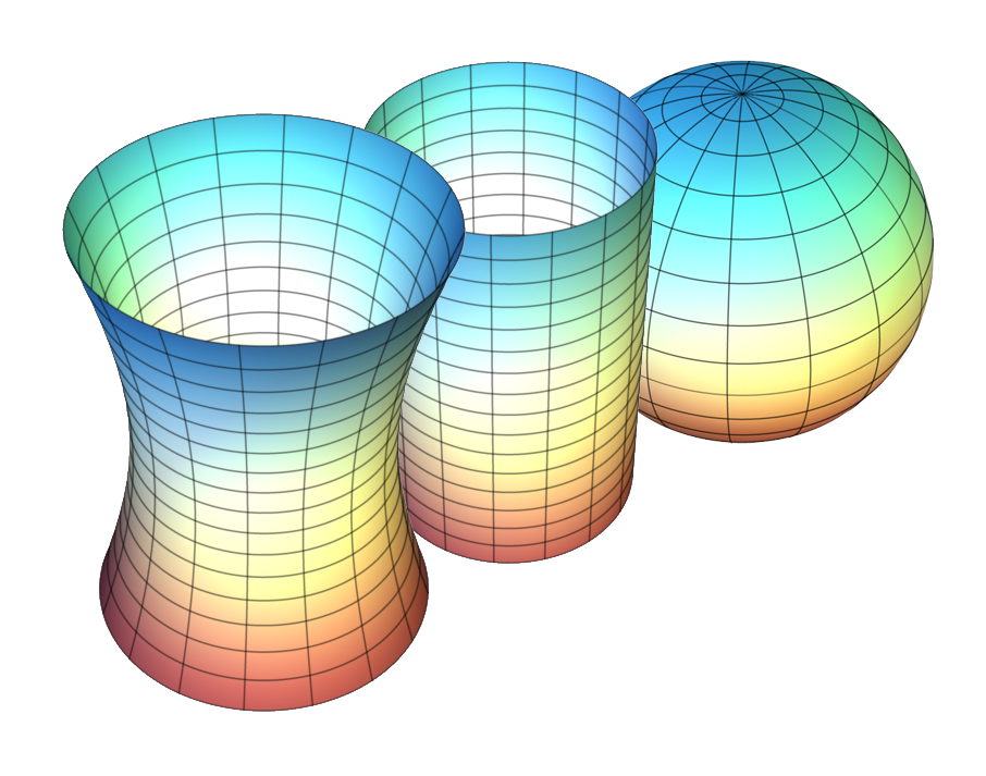 Surfaces of positive, zero, and negative constant curvature.